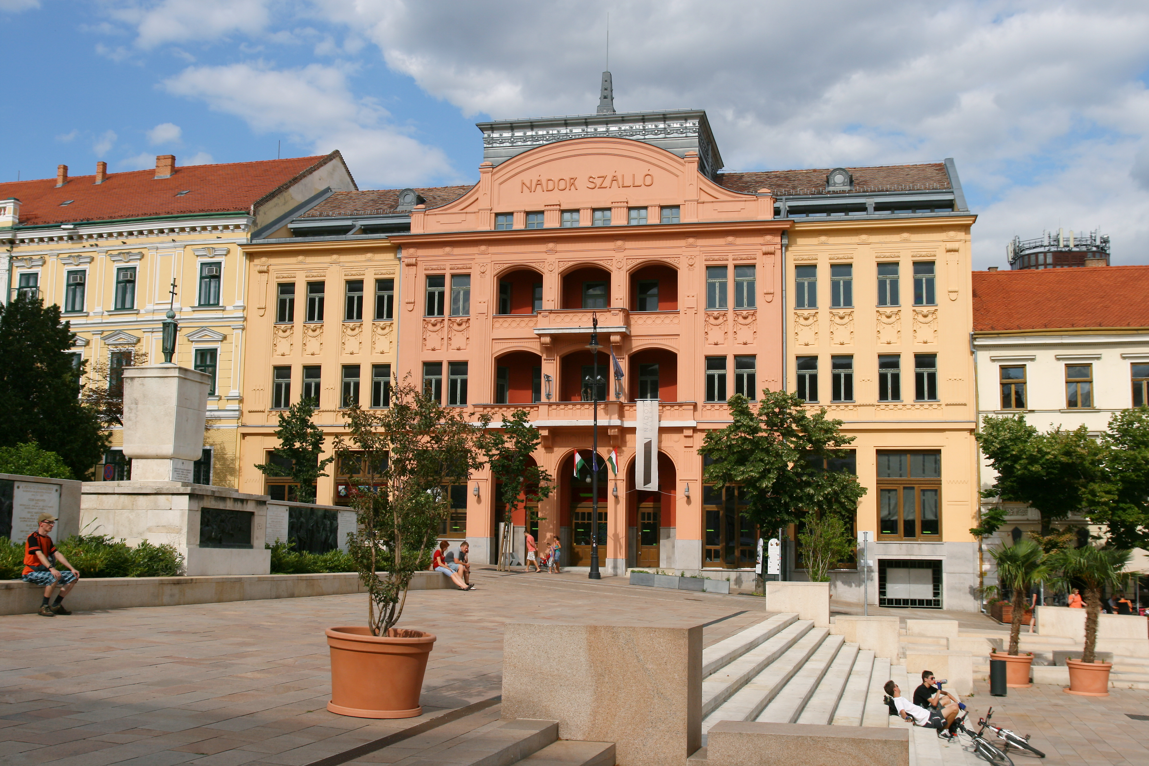 Hotel Nádor in Pécs (Hungary).